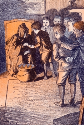 Illustration from children's novel, Hallowe'en at Merryvale by Alice Hale Burnett. Caption:"Keep this until I am gone, then hold it over yonder candle light," she ordered.